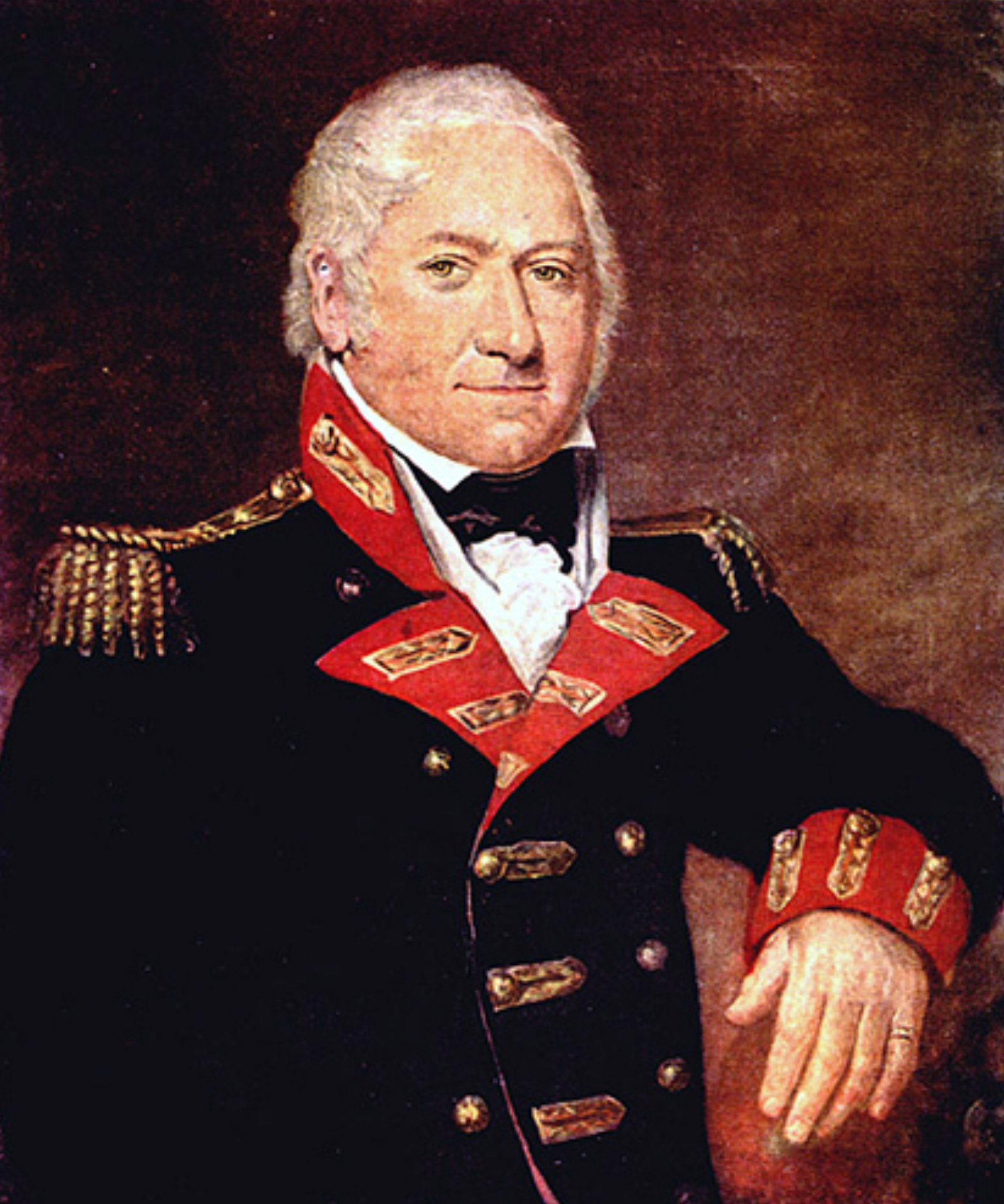 Portrait of Henry Shrapnel (1761-1842)